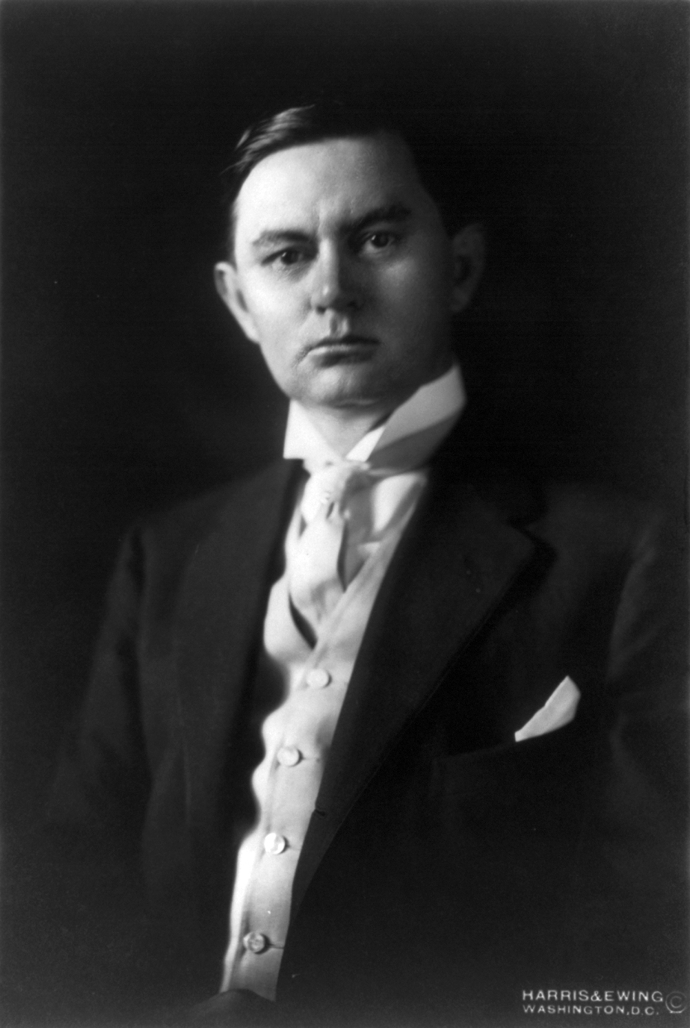 Portrait of Senator Thomas William Hardwick.